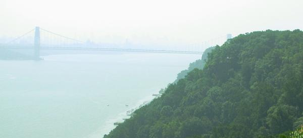 The George Washington Bridge as seen from the Palisades.